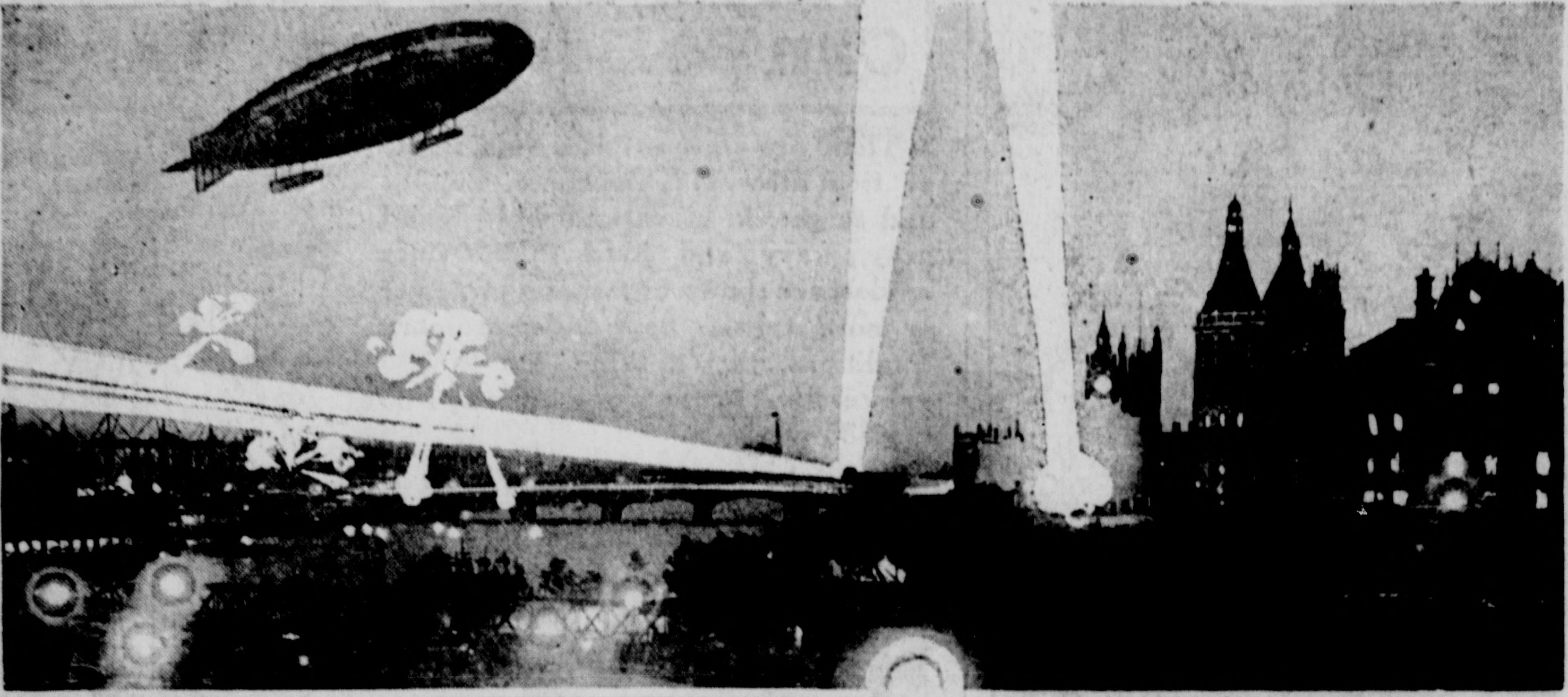 Caption: GERMAN AIRSHIPS SHOWER HAIL OF DEATH IN LONDON: How the artist pictures the arrival of the Zeppelin vanguard of the forces of William over London, with the parliament house in the background at night as its objective. Powerful searchlights pierce the sky in a frenzied effort to locate the invader. The lower portion of the picture is taken from a real photograph of London as it is now, with searchlights and cannon awaiting the German air invasion.